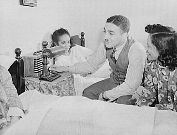 Title: Washington, D.C.Jewel Mazique, a worker at the Library of Congress, with her husband, Dr. Mazique and one of their nieces whom they are rearing Creator(s): Collier, John, 1913-1992, photographer Date Created/Published: 1942 Winter. Medium: 1 negative : safety ; 4 x 5 inches or smaller. Reproduction Number: LC-USW3-000604-C (b&w film neg.) Rights Advisory: No known restrictions. For information, see U.S. Farm Security Administration/Office of War Information Black & White Photographs( Call Number: LC-USW3- 000604-C [P&P] Repository: Library of Congress Prints and Photographs Division Washington, D.C. 20540 Notes: Title and other information from print in lot. LOT 0296 (Location of corresponding print.) Transfer; United States. Office of War Information. Overseas Picture Division. Washington Division; 1944. More information about the FSA/OWI Collection is available at Film copy on SIS roll 1, frame 607.